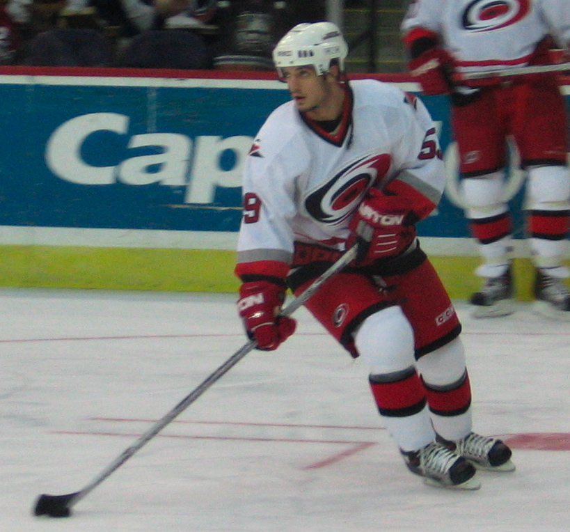 Chad LaRose; Taken before the Hurricanes' game against the Washington Capitals on January 27, 2007.